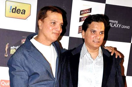 Musician duo Jatin Pandit (l) and Lalit Pandit (r) at the Mirchi Music Awards